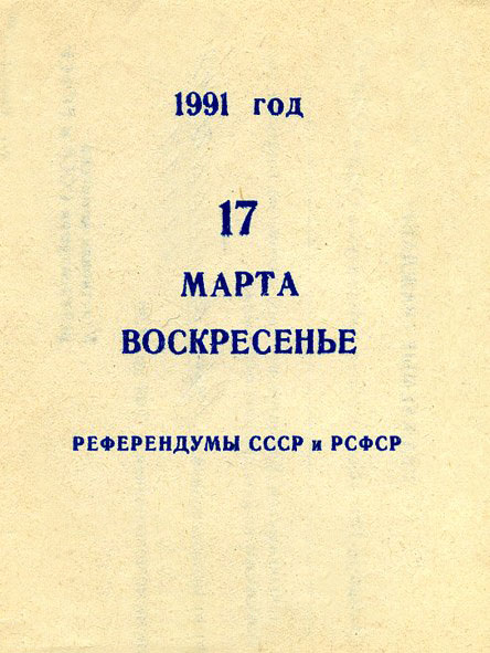 Russian voter invitation card, USSR and RSFSR Referendums, March 17, 1991. Obverse.